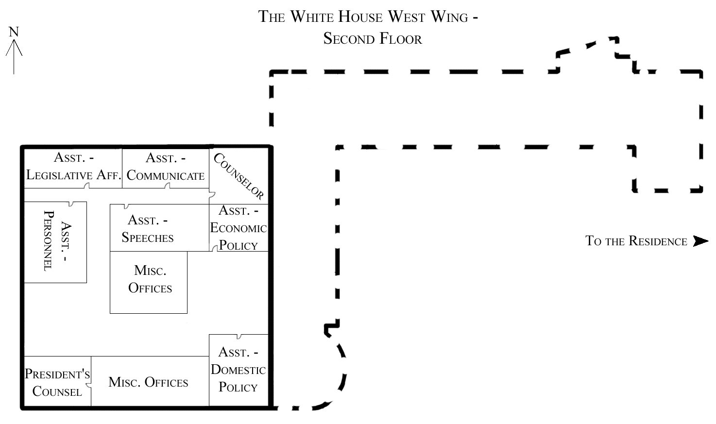 A floorplan of the second floor of the West Wing of the White House. Note that, depending on the administration, some positions (President's Counsel, etc.) may be located in different offices than are shown here. Image is not to scale.